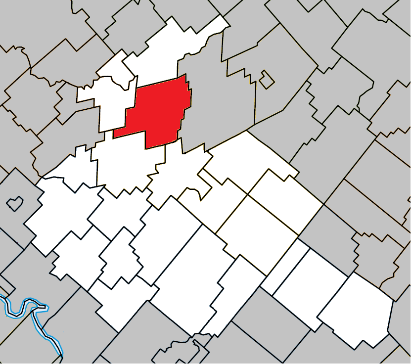 Location of Saint-Rosaire, Quebec within Arthabaska Regional County Municipality.